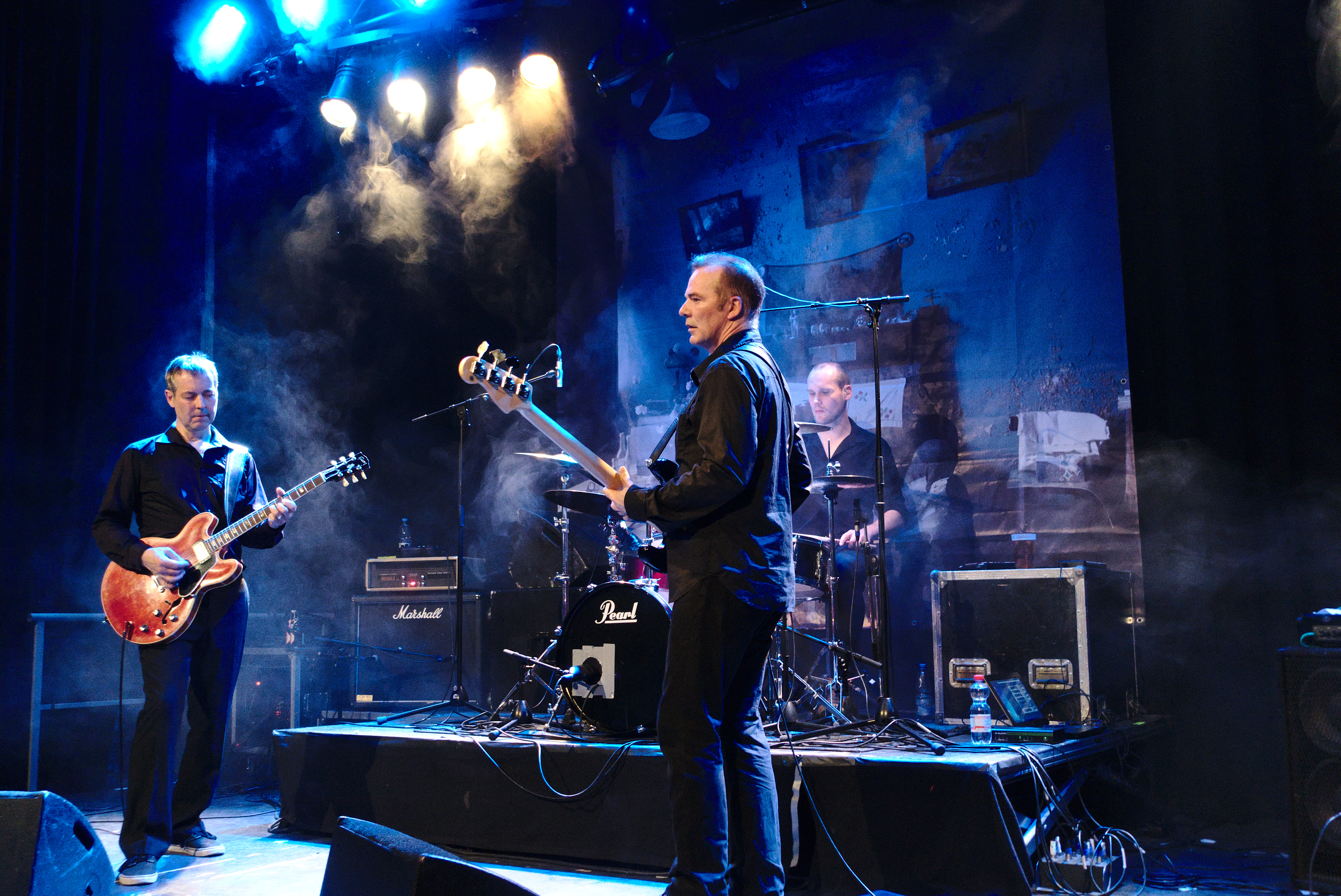 Pink Turns Blue in concert, Stuttgart, ClubCANN